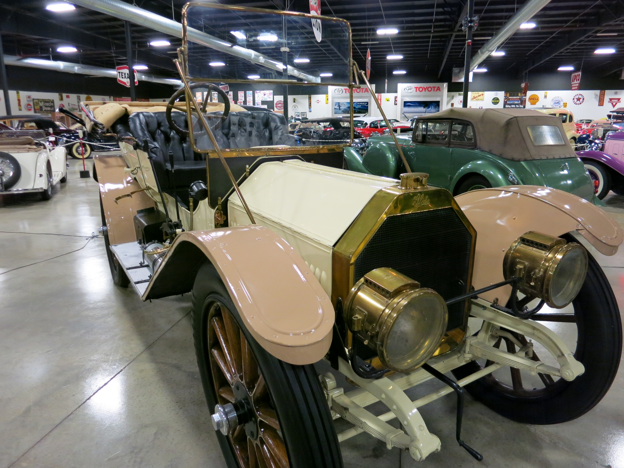 1908 Glide Tupelo Automobile Museum Tupelo, Mississippi